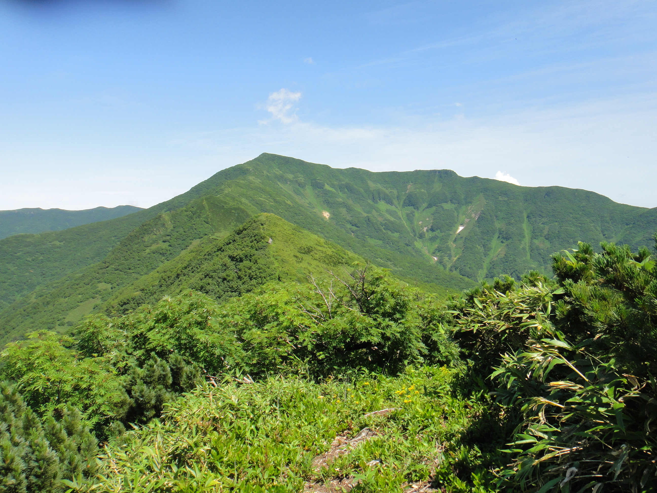 Mount Kariba seen from Maeyama.